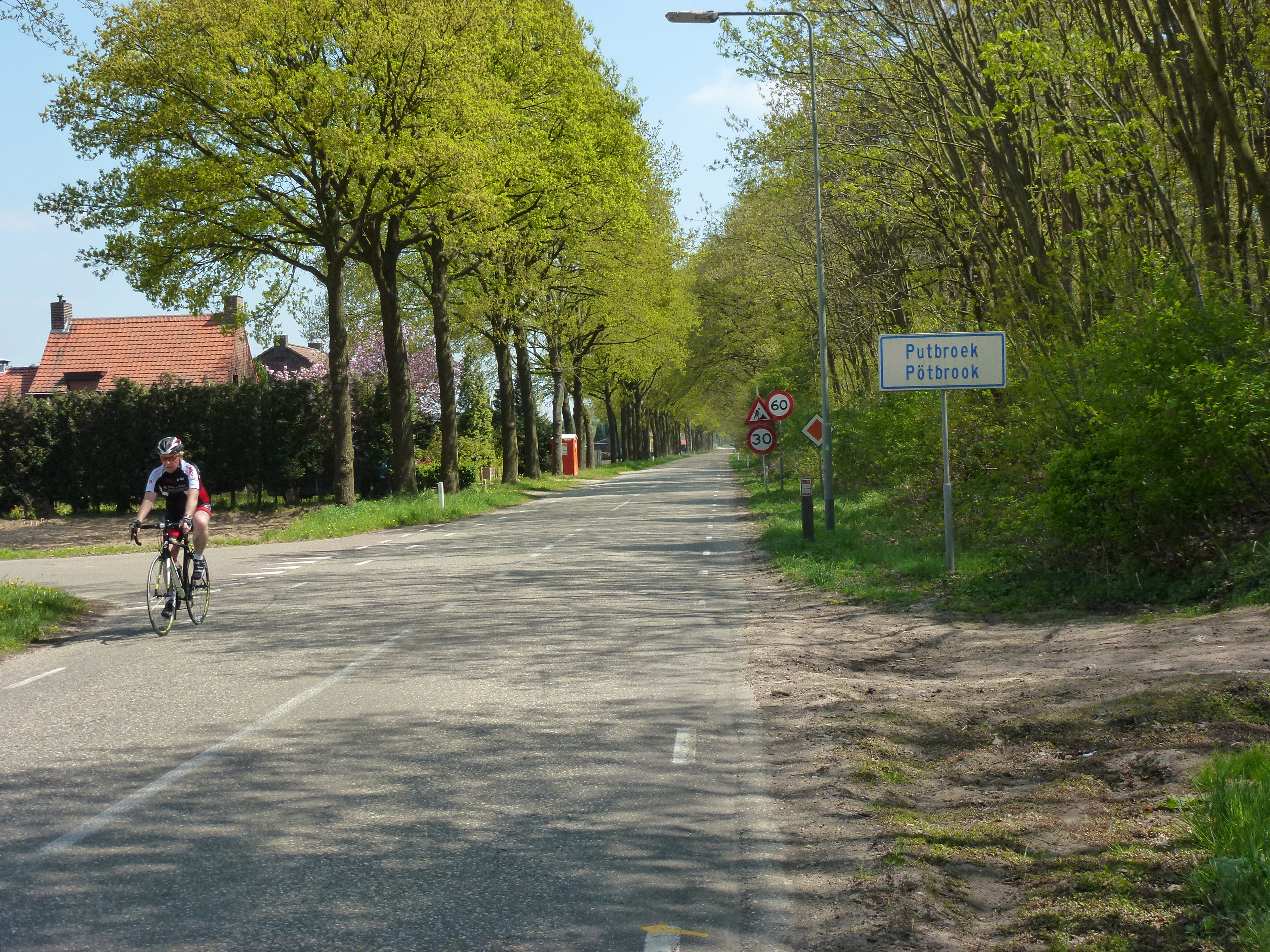 Putbroek (Echt-Susteren) entreebord